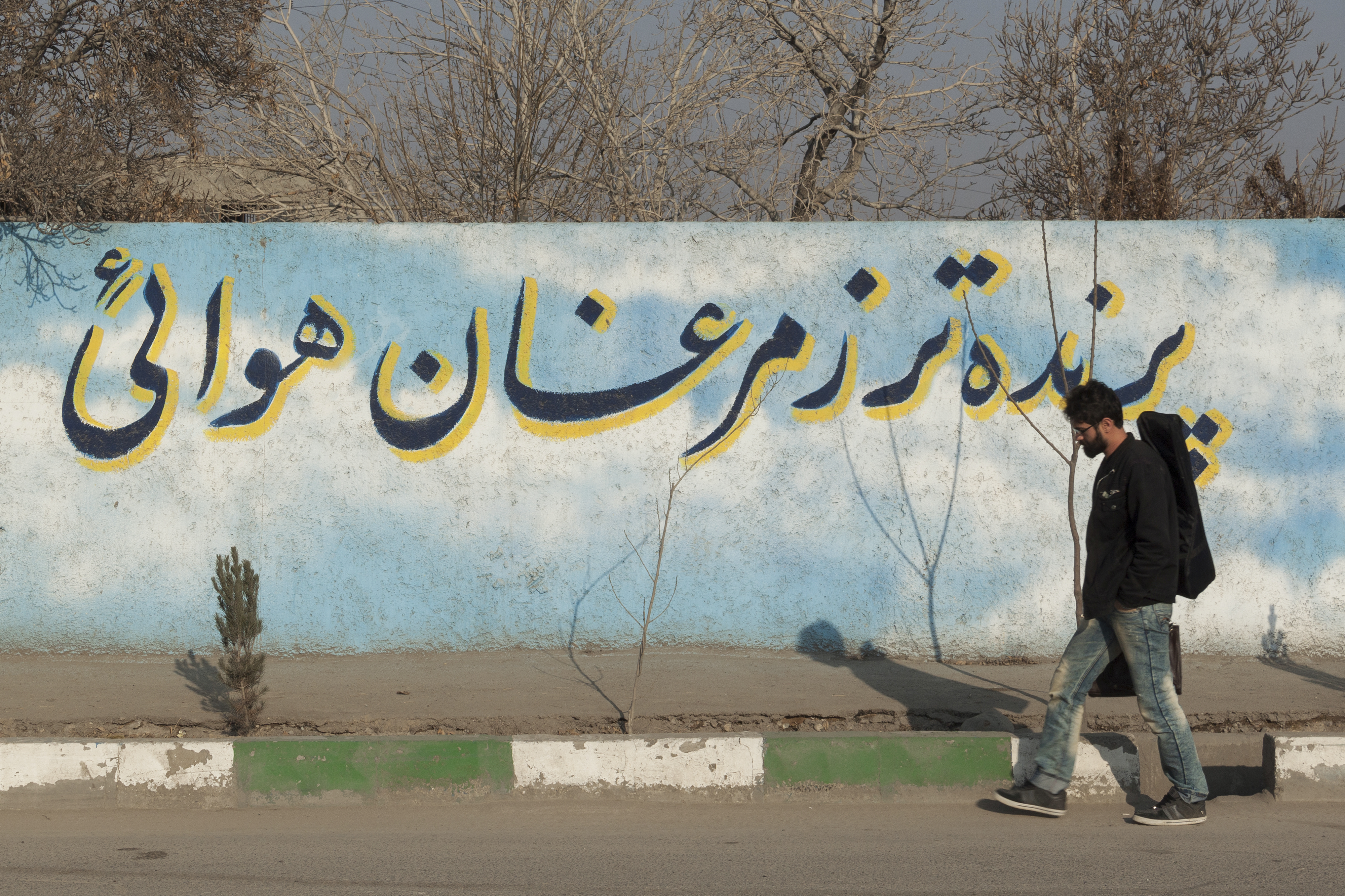 Qom is the seventh largest metropolis and also the seventh largest city in Iran.